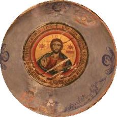 Assumption_of_Mary_Church_in_Samarina_Fresco